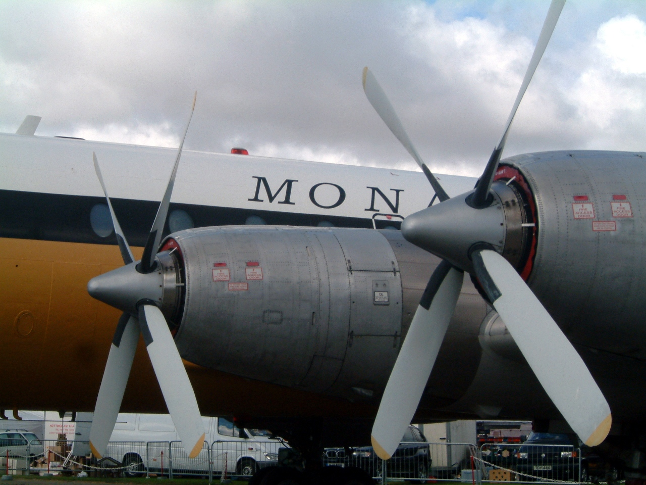 Engines of a Bristol Britannia airliner in Monarch Airlines livery. Seen at Duxford.